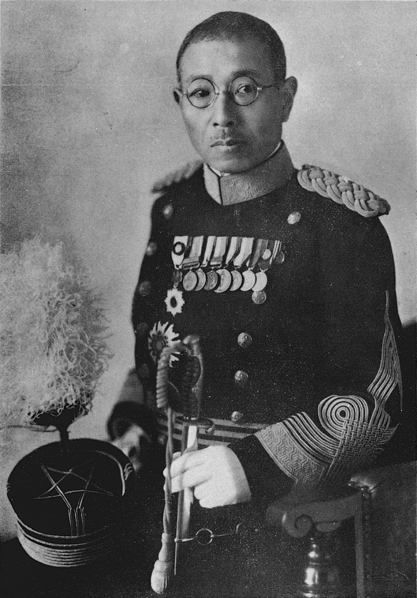 Portrait of Nagata Tetsuzan (永田鉄山, 1884 – 1935)